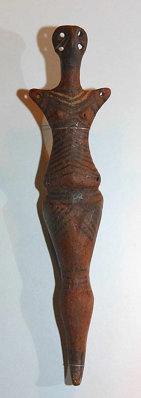 Cucuteni 3800-3600 BC Clay Figure. Discovered in Modern Day Romania. Exposed in Piatra Neamt Cucuteni Museum.